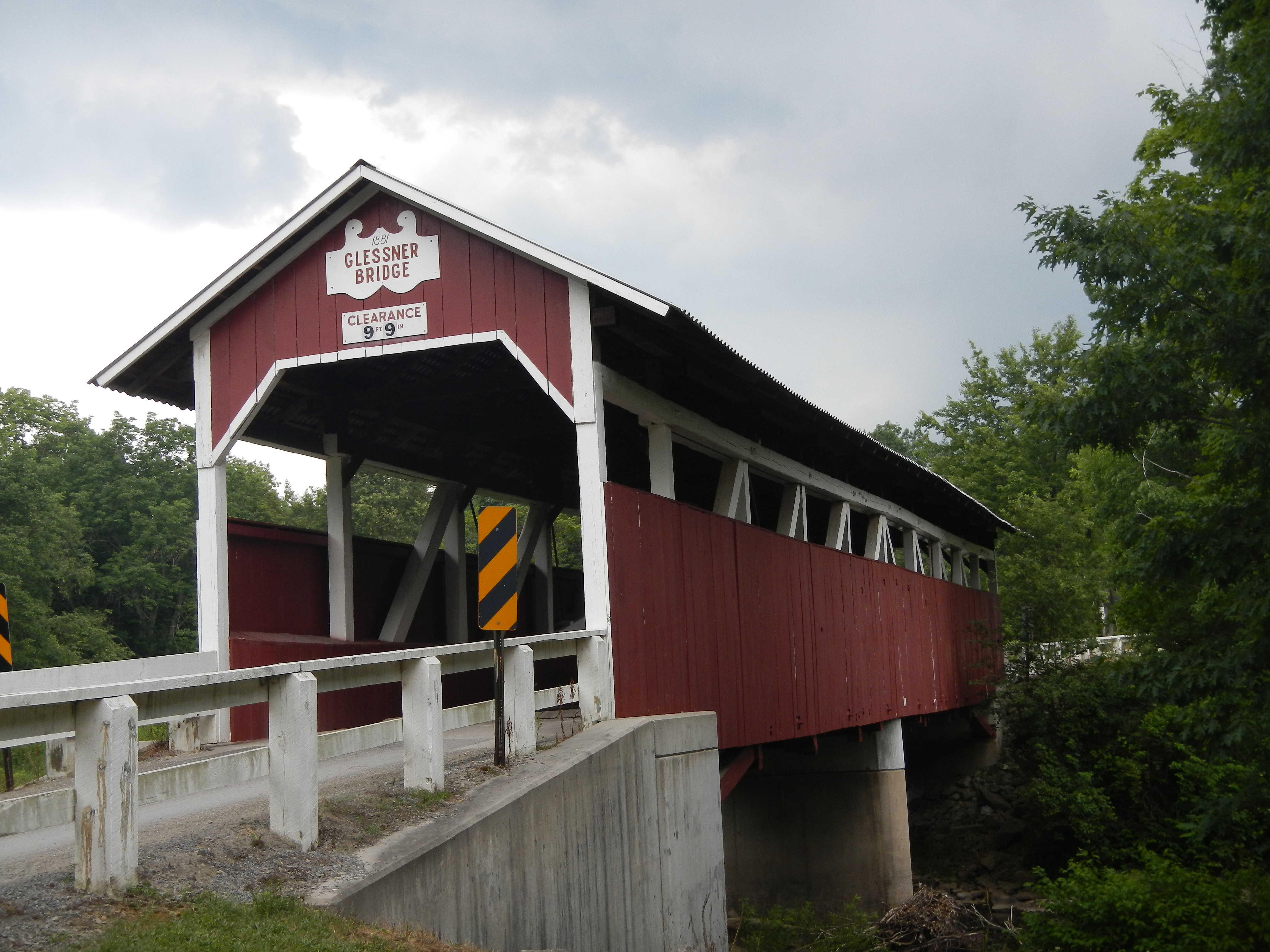 Glessner Bridge, located in Stonycreek Township, Somerset County, Pennsylvania.